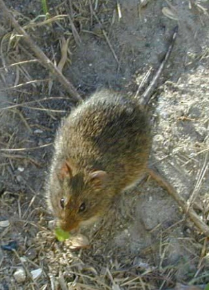 Marsh rice rat (Oryzomys palustris) in Paynes Prairie, Florida. This is presumably the subspecies O. p. natator, distinguished by more reddish fur.